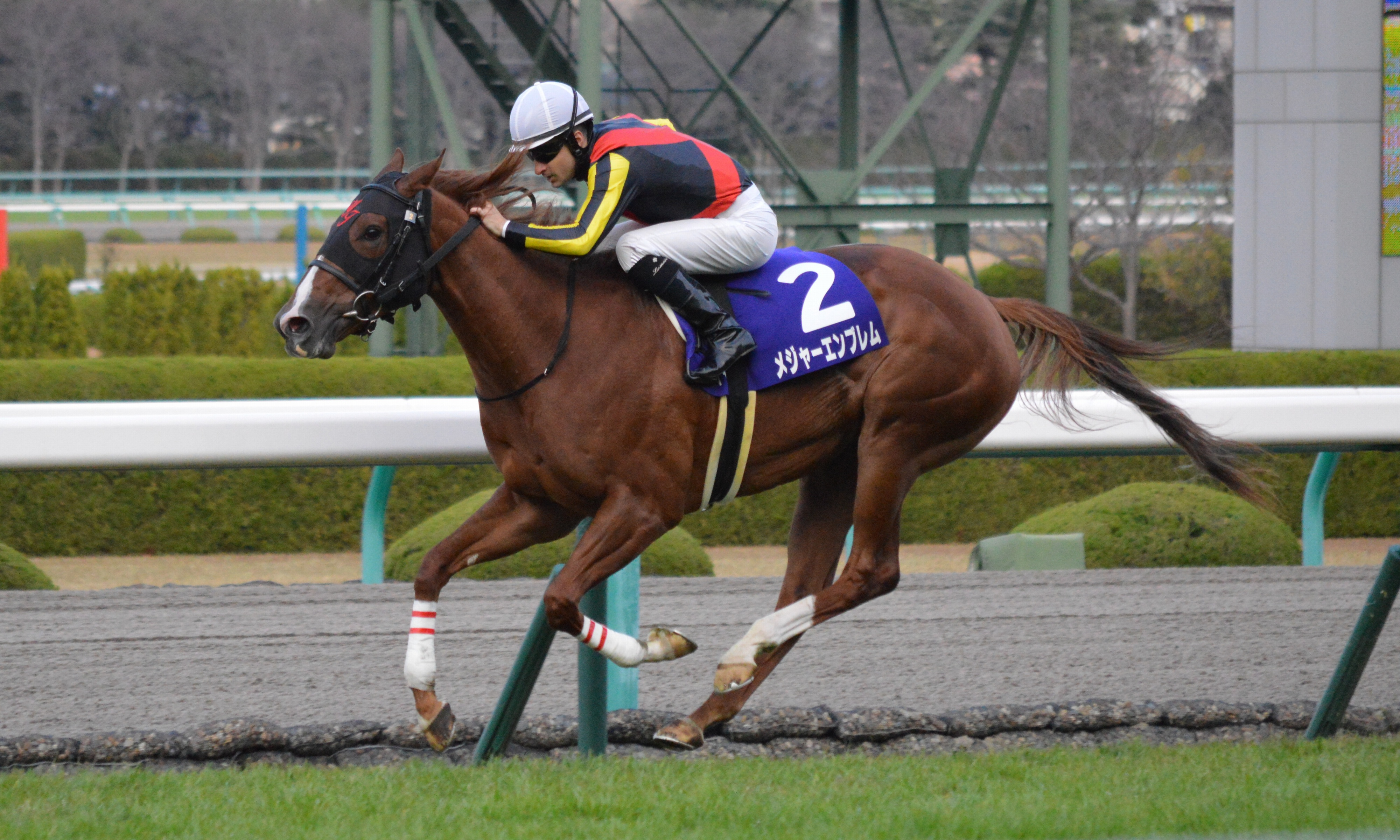 Japanese race horse Major Emblem at Hanshin racecourse.